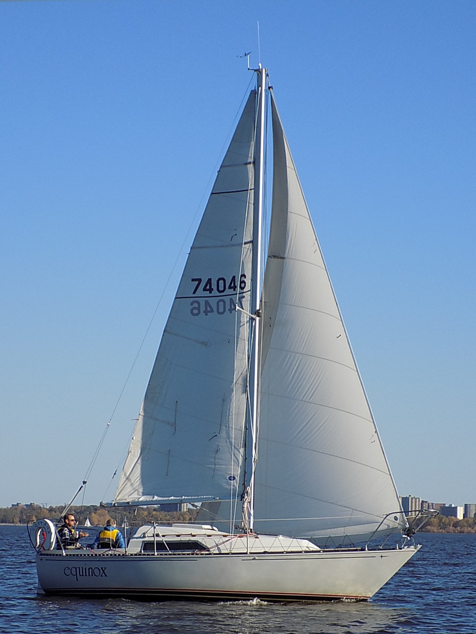 A C&C 25 Mk II sailboat named Equinox.